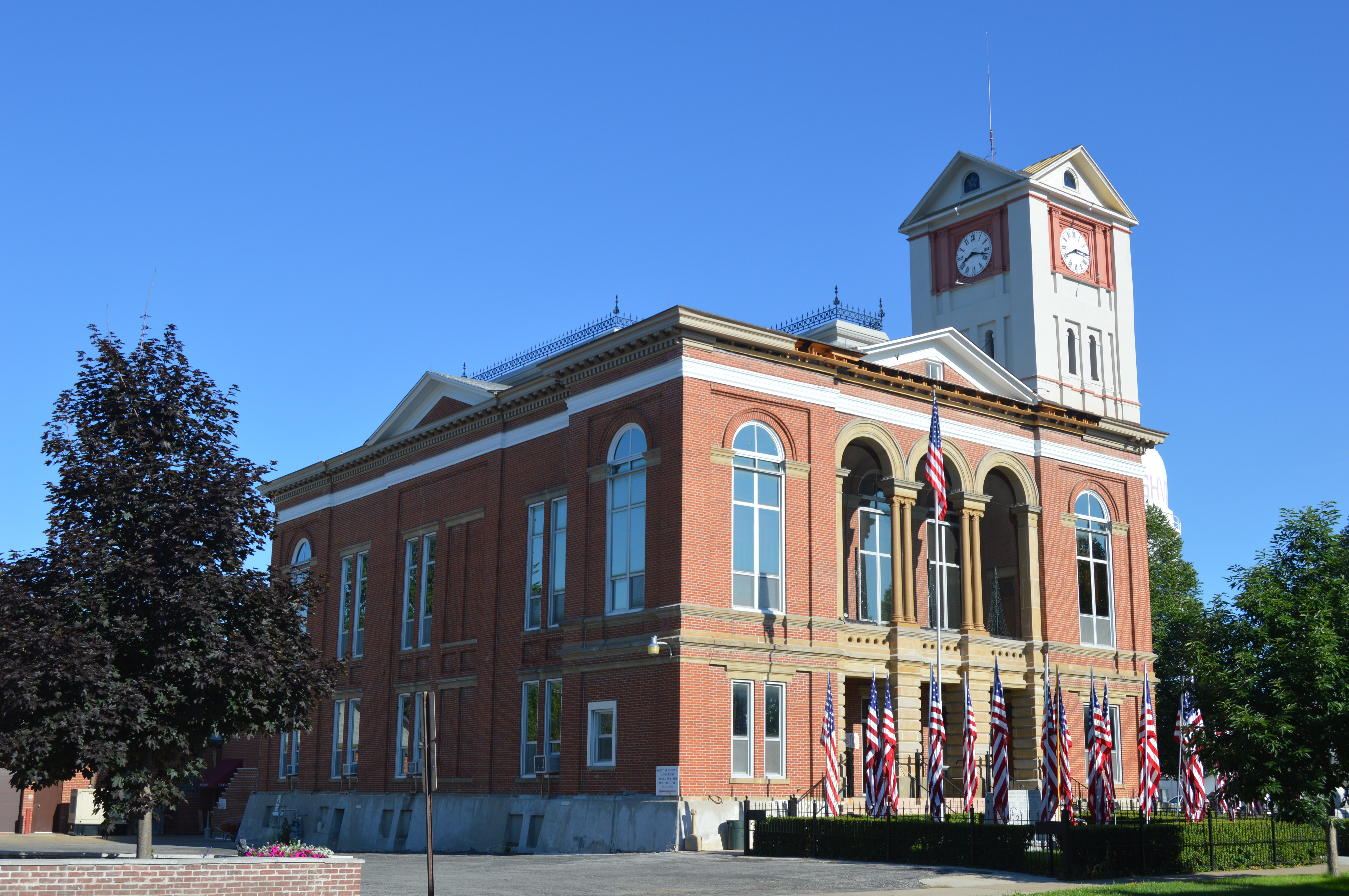 Front and southern side of the Schuyler County Courthouse, located on the southwestern corner of the junction of Congress (U.S. Route 24) and Lafayette Streets in Rushville, Illinois, United States. It was built in 1882.